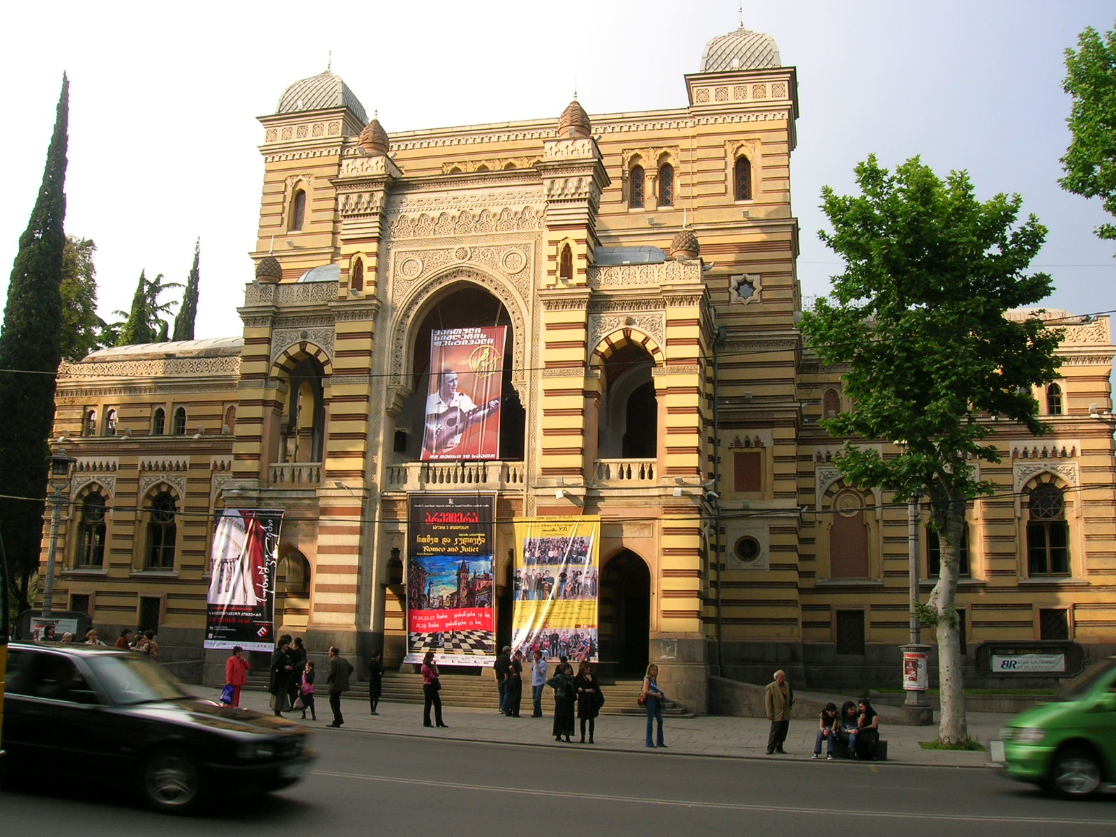 Tbilisi Opera House from outside